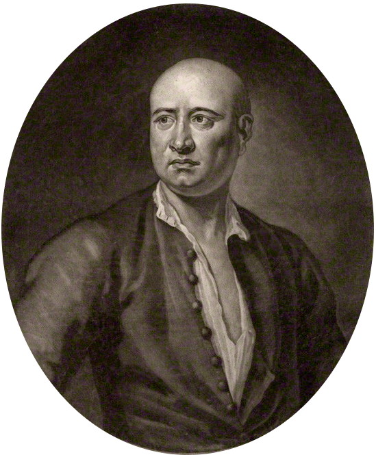 James Figg, mezzotint, 13 3/8 in. x 9 1/2 in. (339 mm x 241 mm) paper size